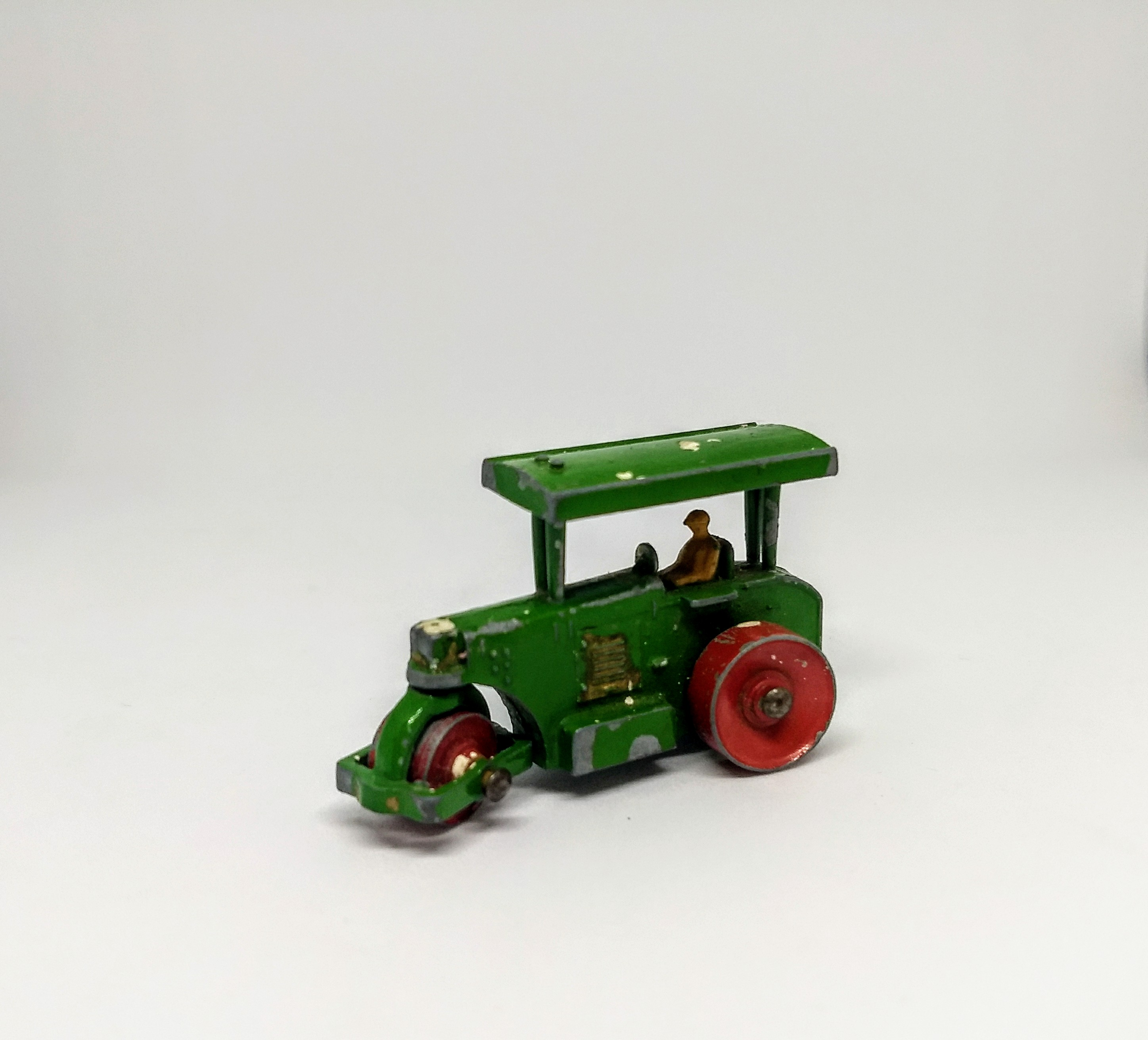 Road Roller No. 1 by Matchbox, 1953